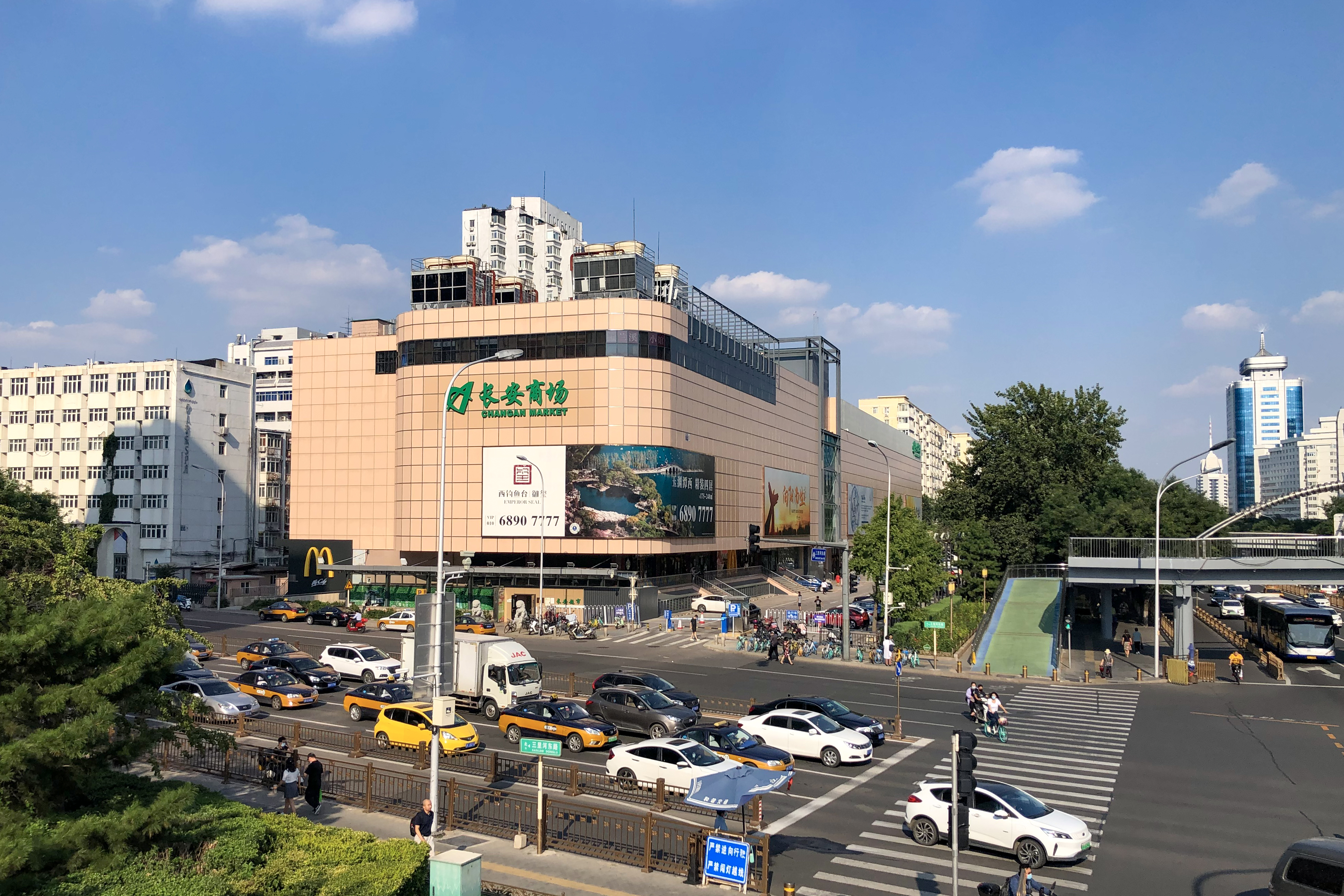 First visit after its renovation in 2019.